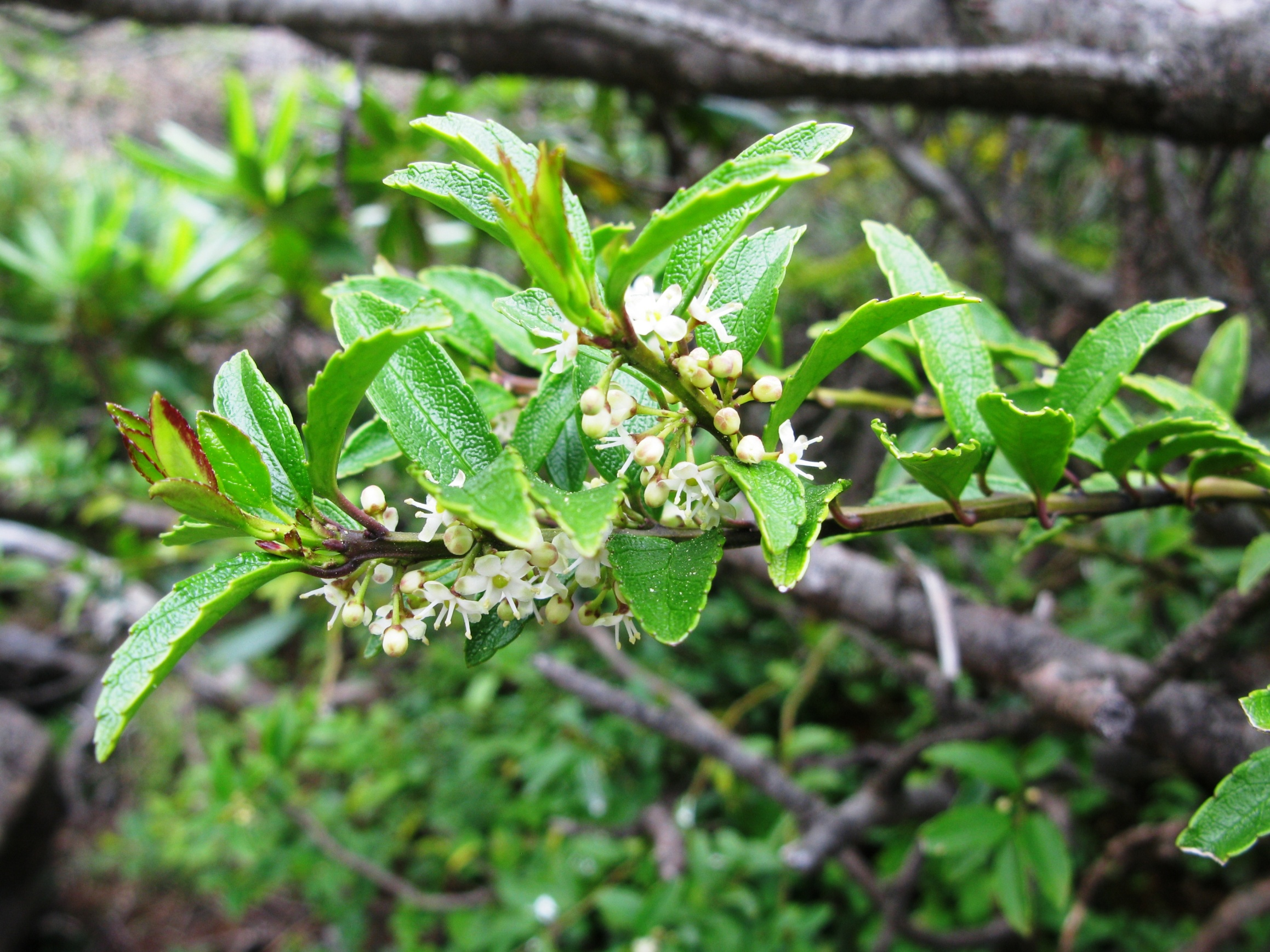 Ilex rugosa, male flowers, Mt. Nishiazuma, Yamagata pref., Japan